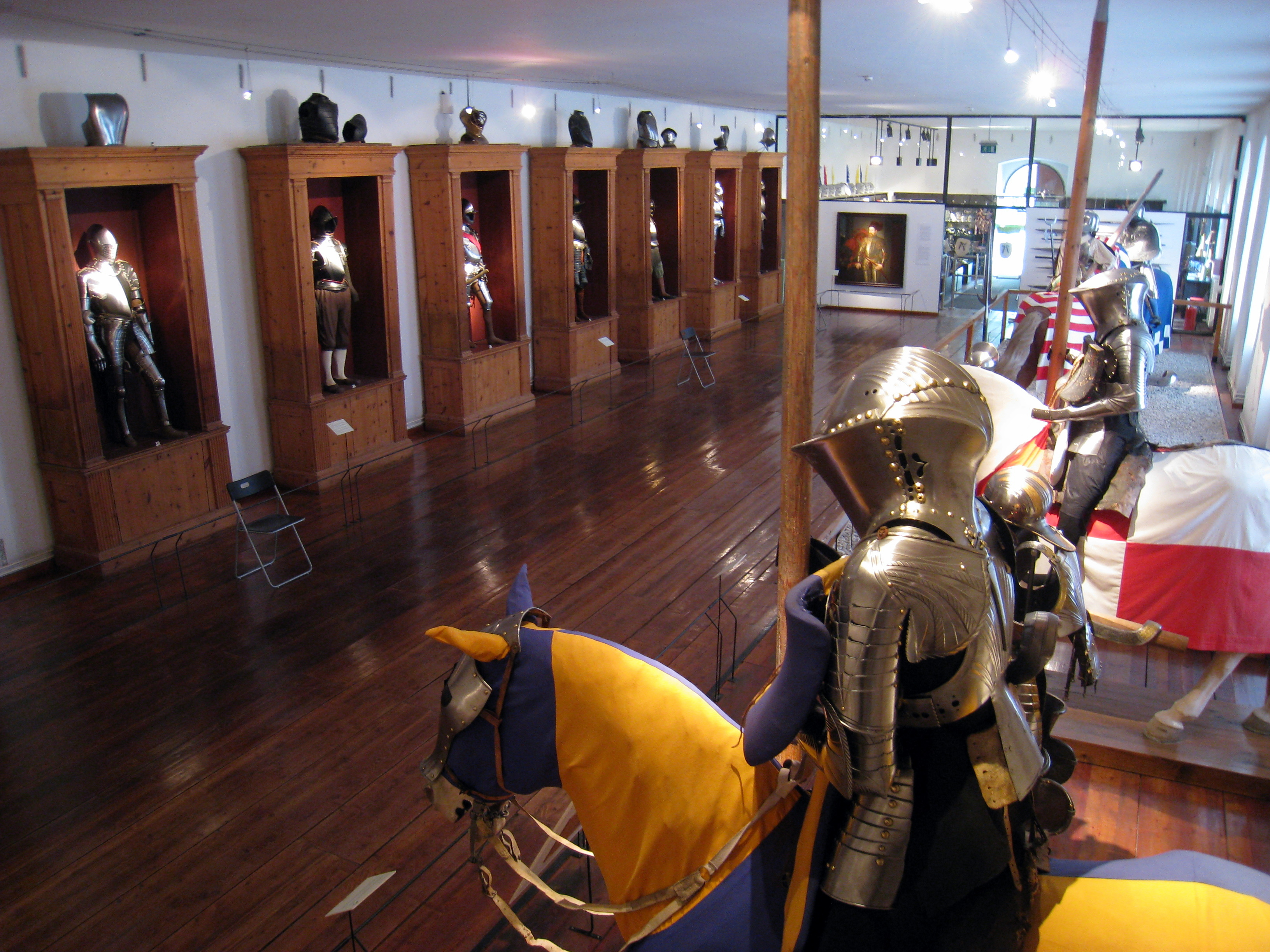 Schloss Ambras, Innsbruck, Austria. Armor collection.